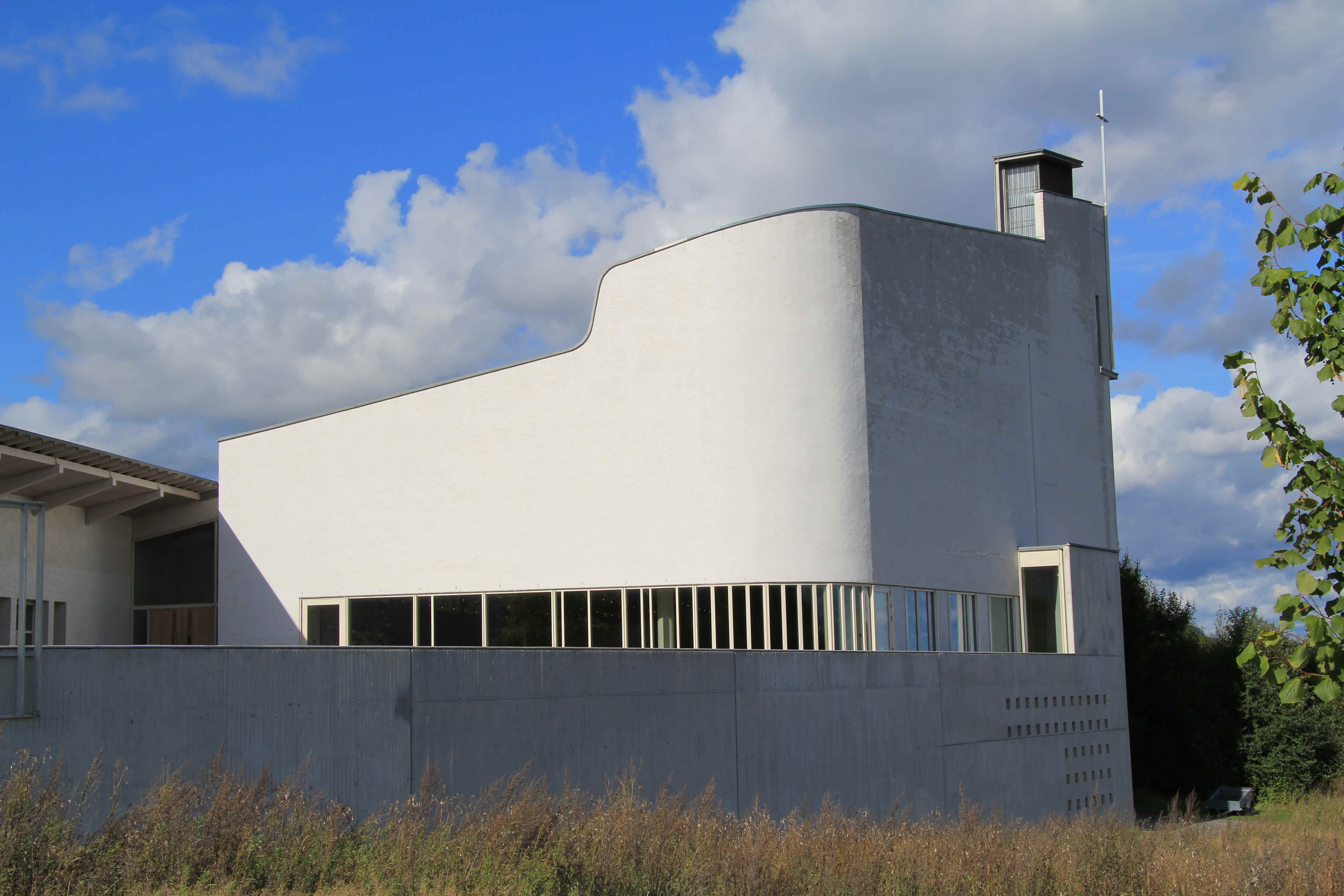 Vardåsen church in Asker, Norway